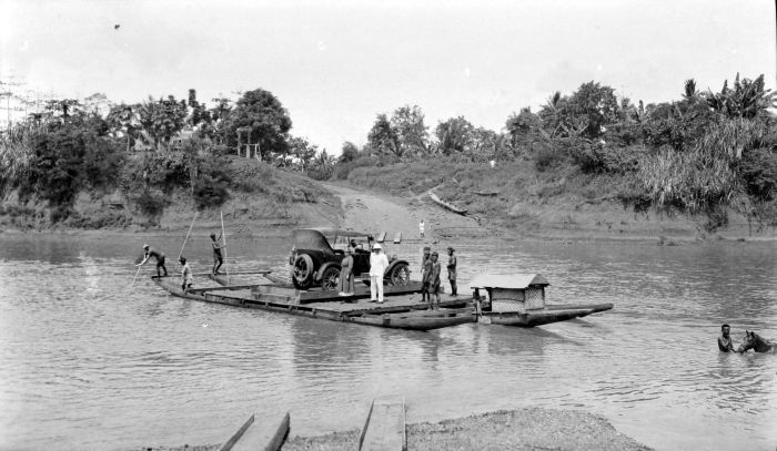 Ferry across the Sadang-river on the westcoast of Sulawesi